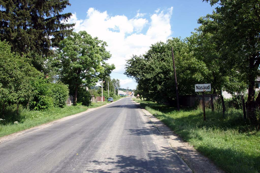 Entrance of Năsăud